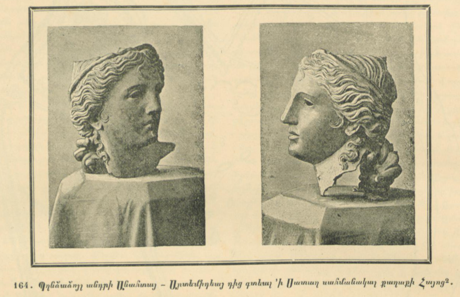 Satala Aphrodite